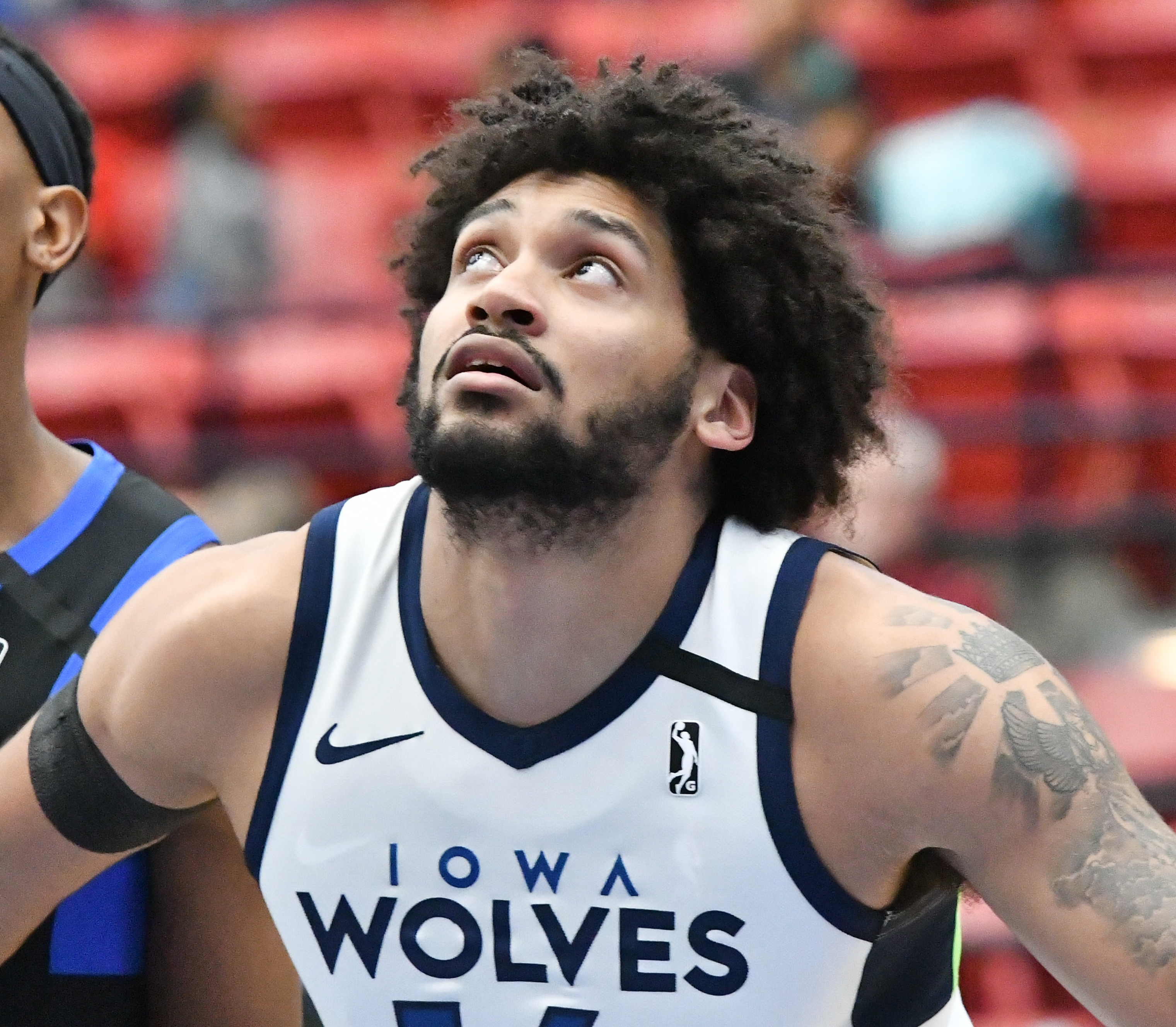 Melvin Frazier, Jordan Murphy. Lakeland Magic vs Iowa Wolves. RP Funding Center. Lakeland, Fla. Jan. 18, 2020. (Photo by Tom Hagerty.)